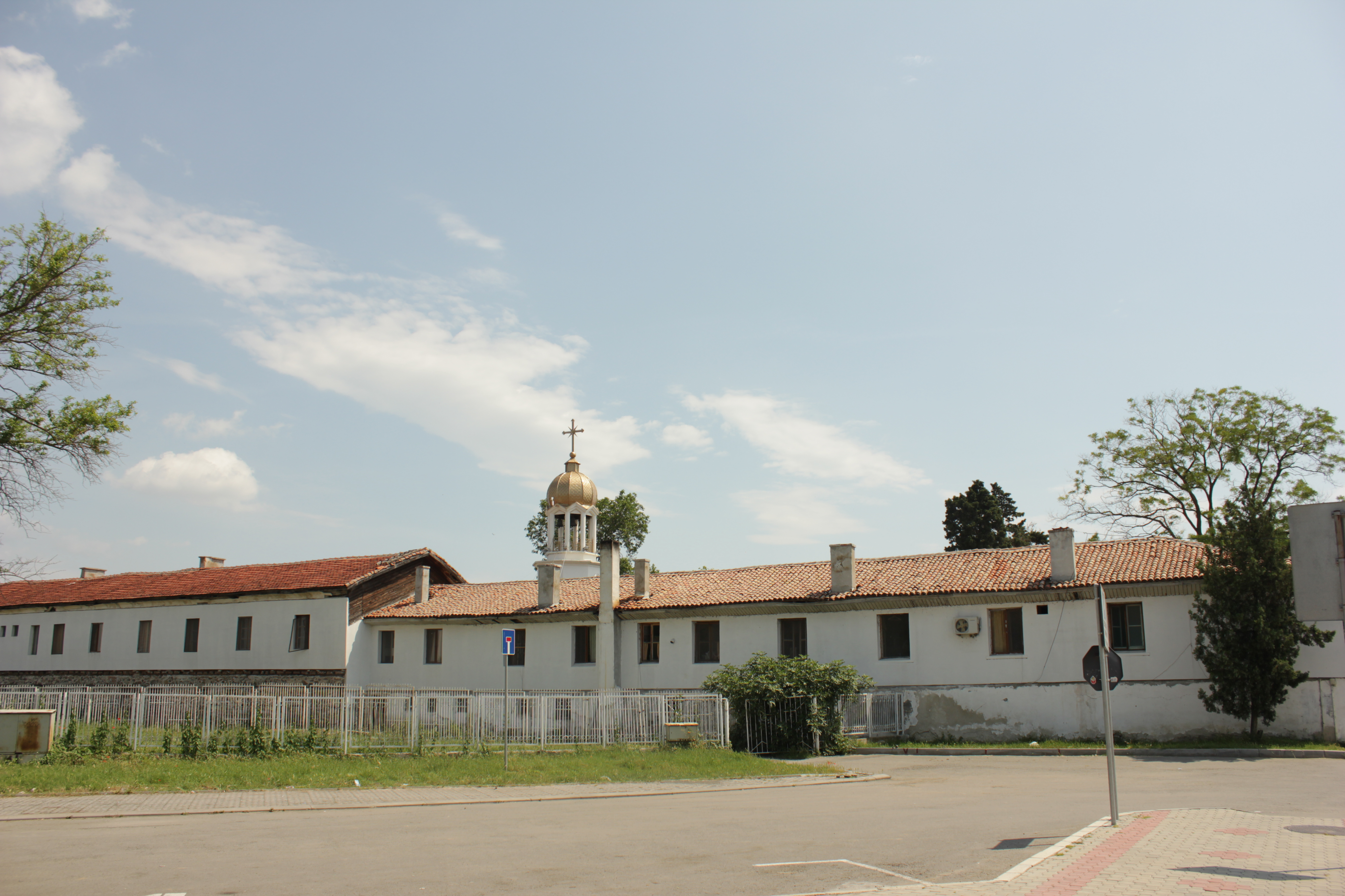 Pomorie Saint George Monastery outside view